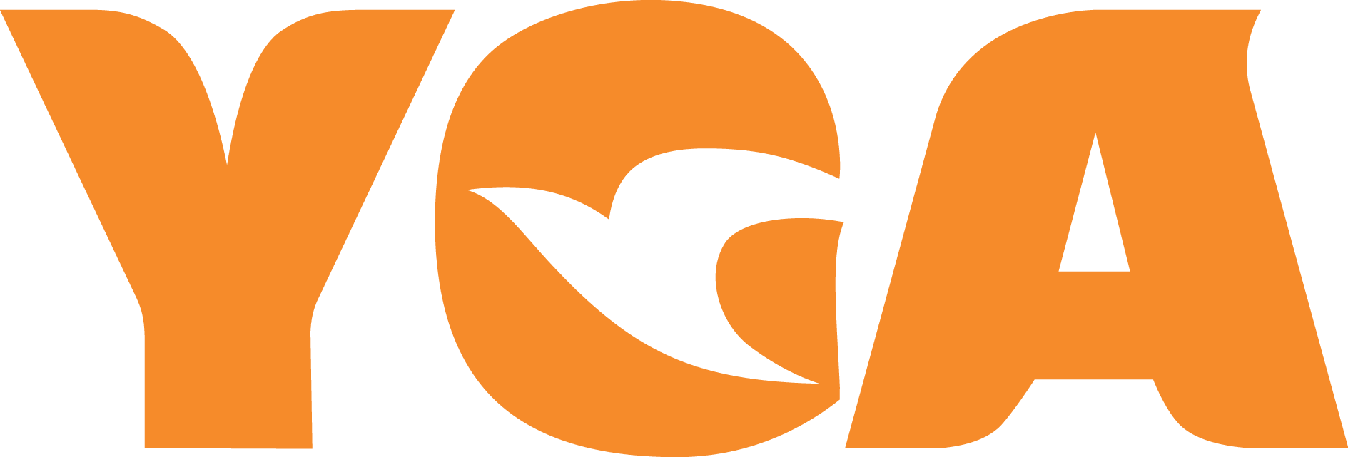 Logo of YGA